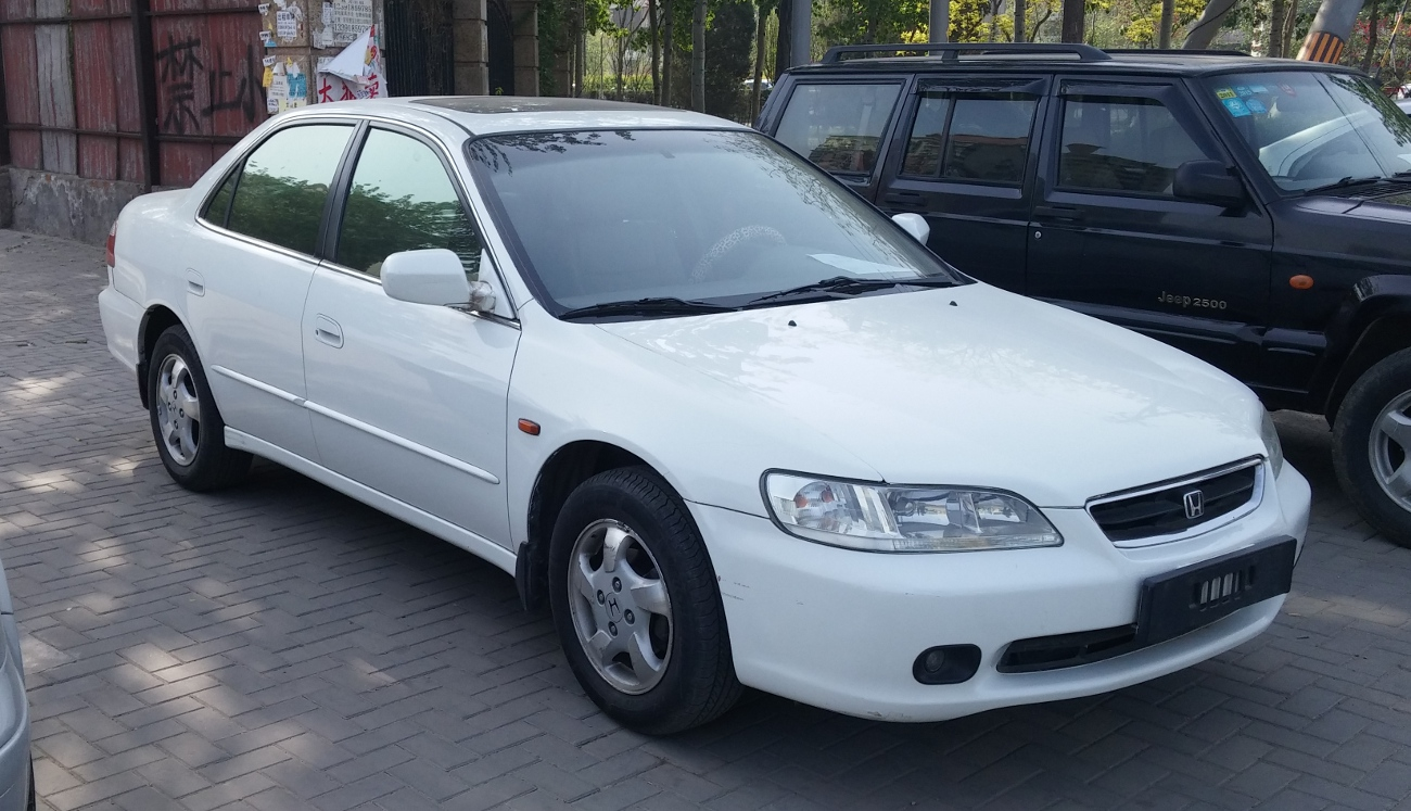 Honda Accord VI photographed in Beijing, China.